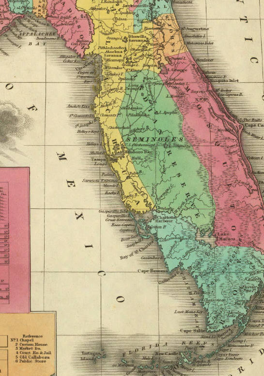 Reservation land of the Seminoles in the 1820s and 1830s. Published in 1831 by A. Finley Philadelphia in A New General Atlas Comprising a Complete Set of Maps, representing the Grand Divisions Of The Globe. David Rumsey Map Collection. Downloaded from Originally published in 1831: A. Finley Philadelphia in A New General Atlas Comprising a Complete Set of Maps, representing the Grand Divisions Of The Globe, Philadelphia : Anthony Finley, 1831. OCLC: 50140597